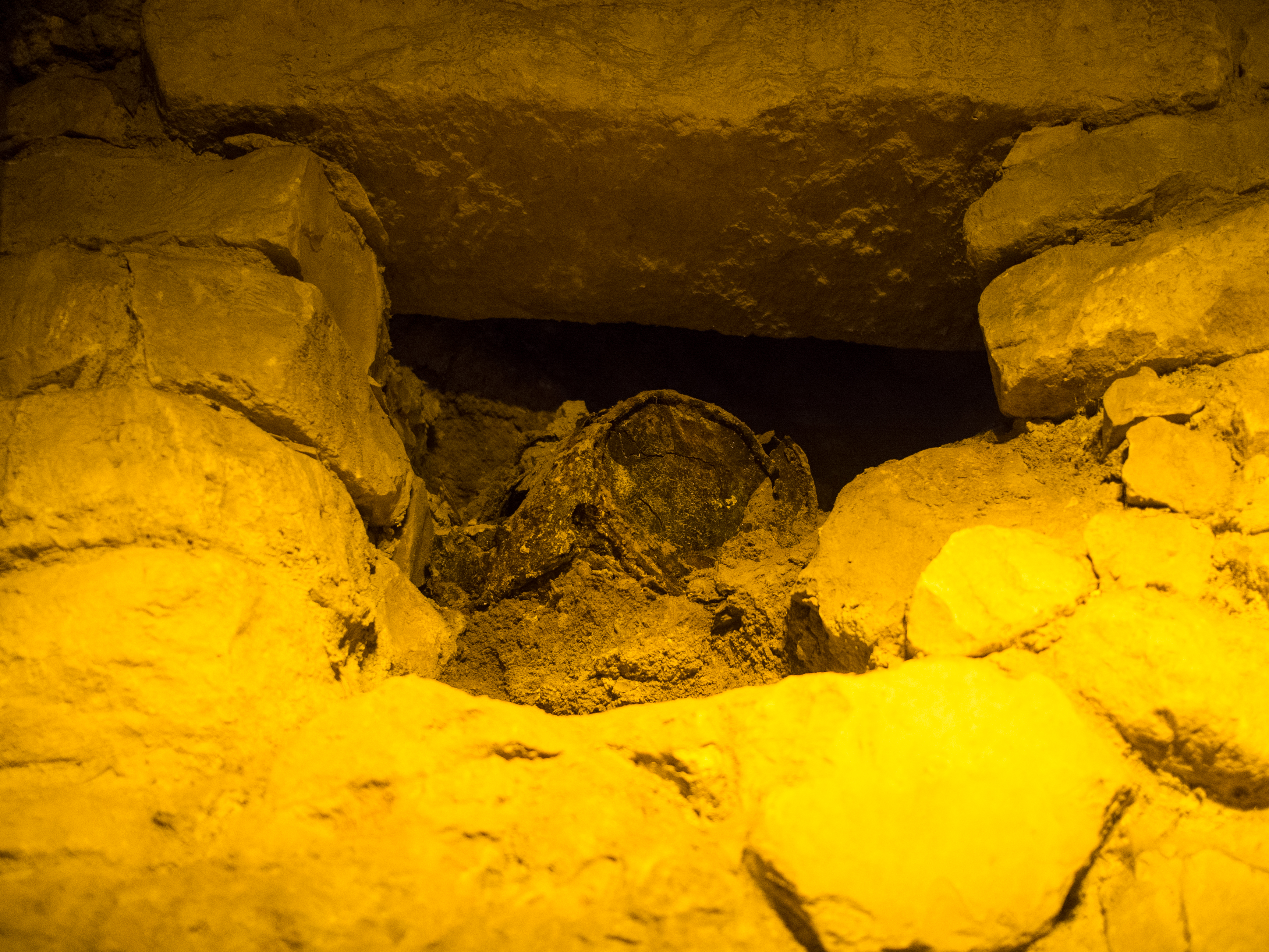 Charles Warren's bucket under Jerusalem.